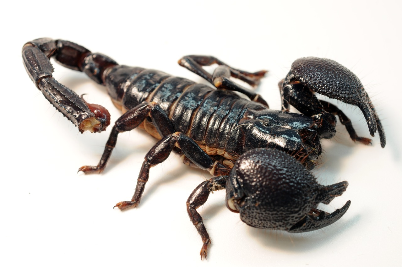 This emperor scorpion or imperial scorpion (Pandinus imperator) is a species of scorpion native to Africa.